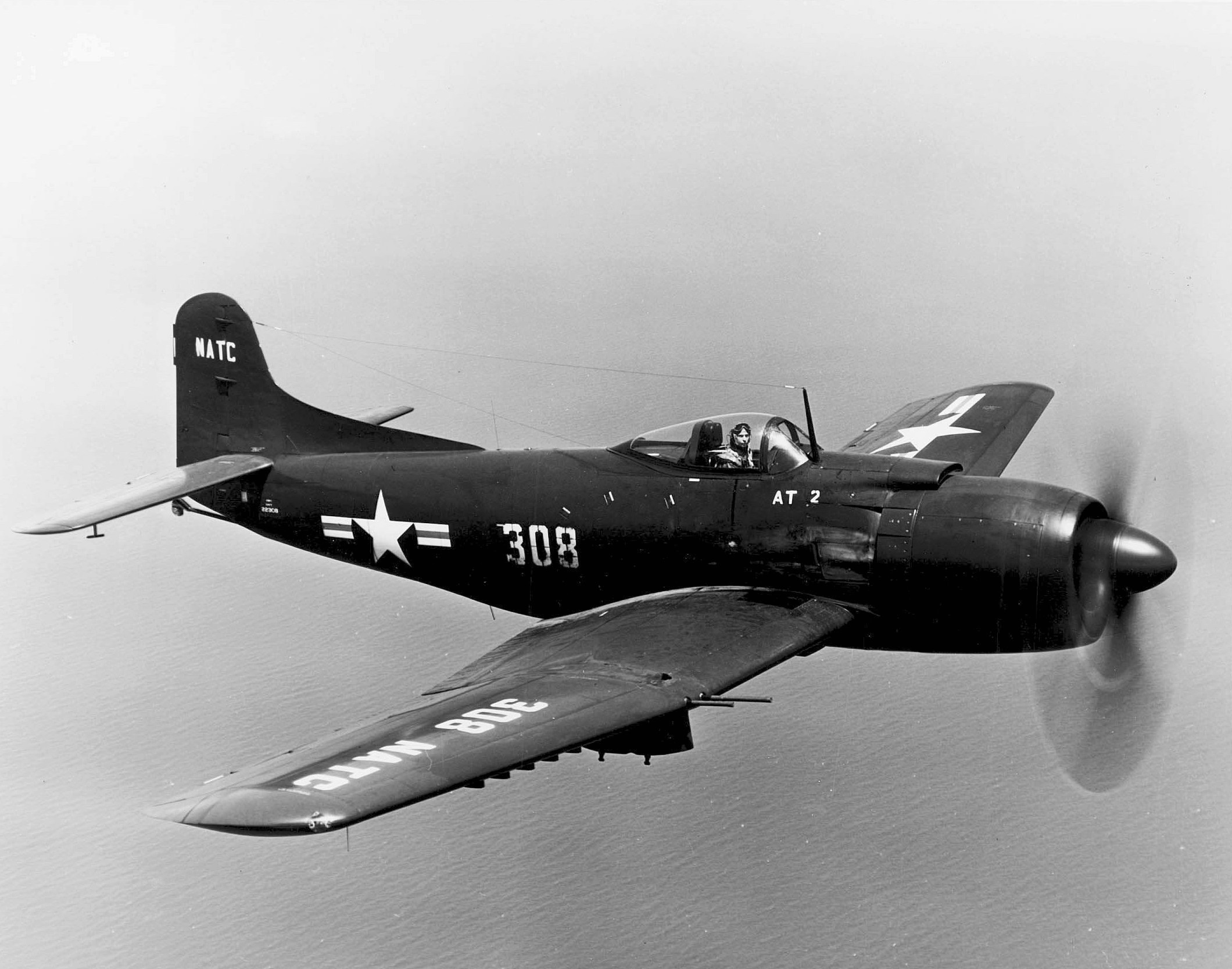 A U.S. Navy Martin Mauler AM-1 Mauler (BuNo 22308) of Naval Air Test Center (NATC) at Naval Air Station Patuxent River, Maryland (USA), in flight, circa late 1940s.